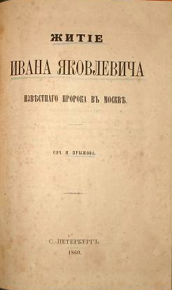 «Life of Ivan Yakovlevich», by Ivan Pryzhov